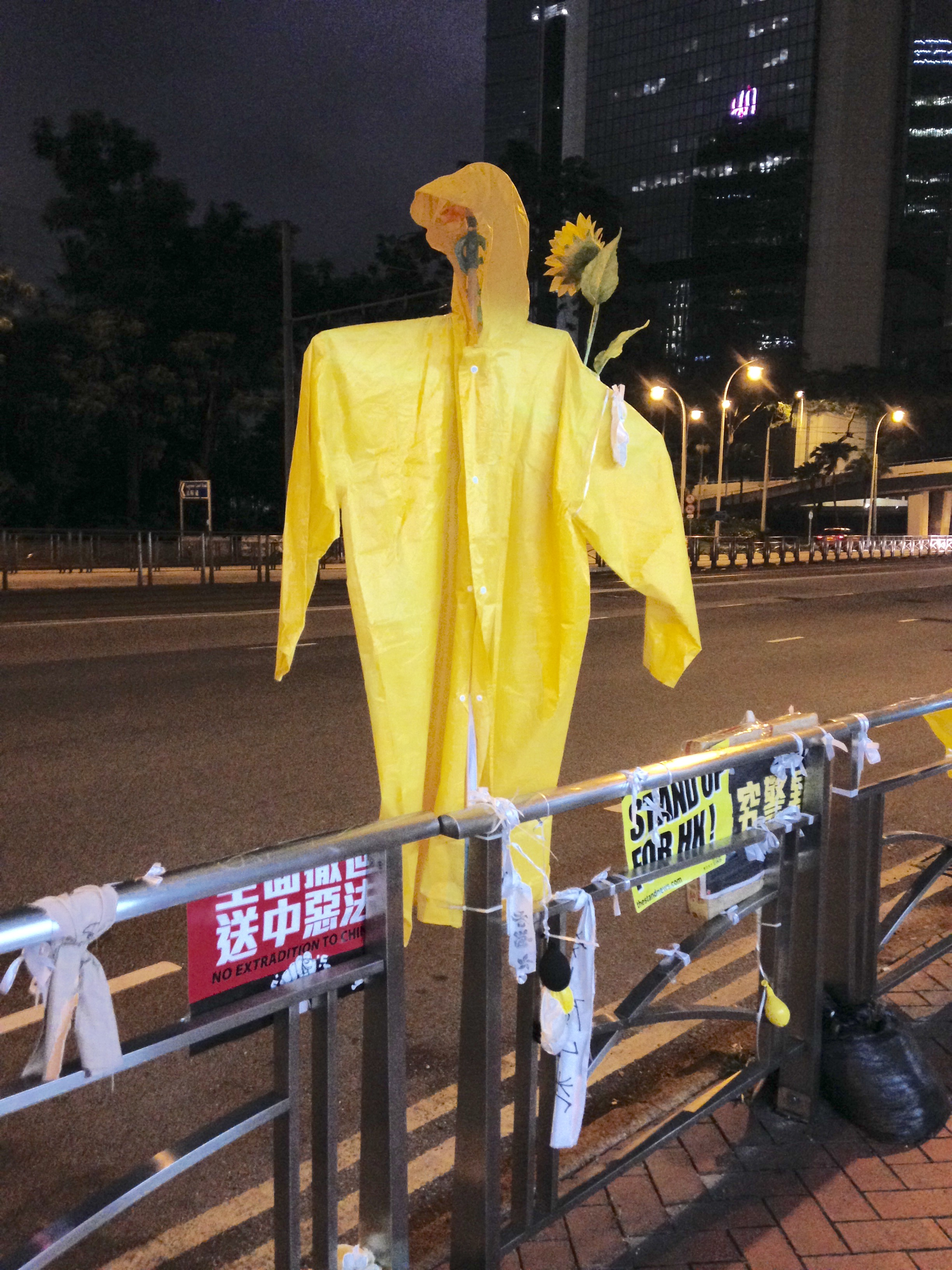 A straw man in yellow raincoat resembling that worn by the first protester who committed suicide is still hung over the railing outside Pacific Place in Admiralty, Hong Kong in honour of him.